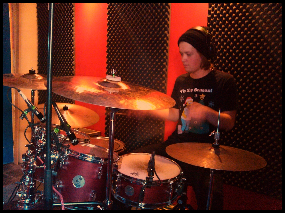 Mārtiņš Vilšķērsts in recording studio, writing the song "Changes". Rīga, Marupa 2013.02.01.